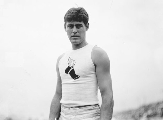 Samuel Jones, US olympic champion at St.Louis 1904.